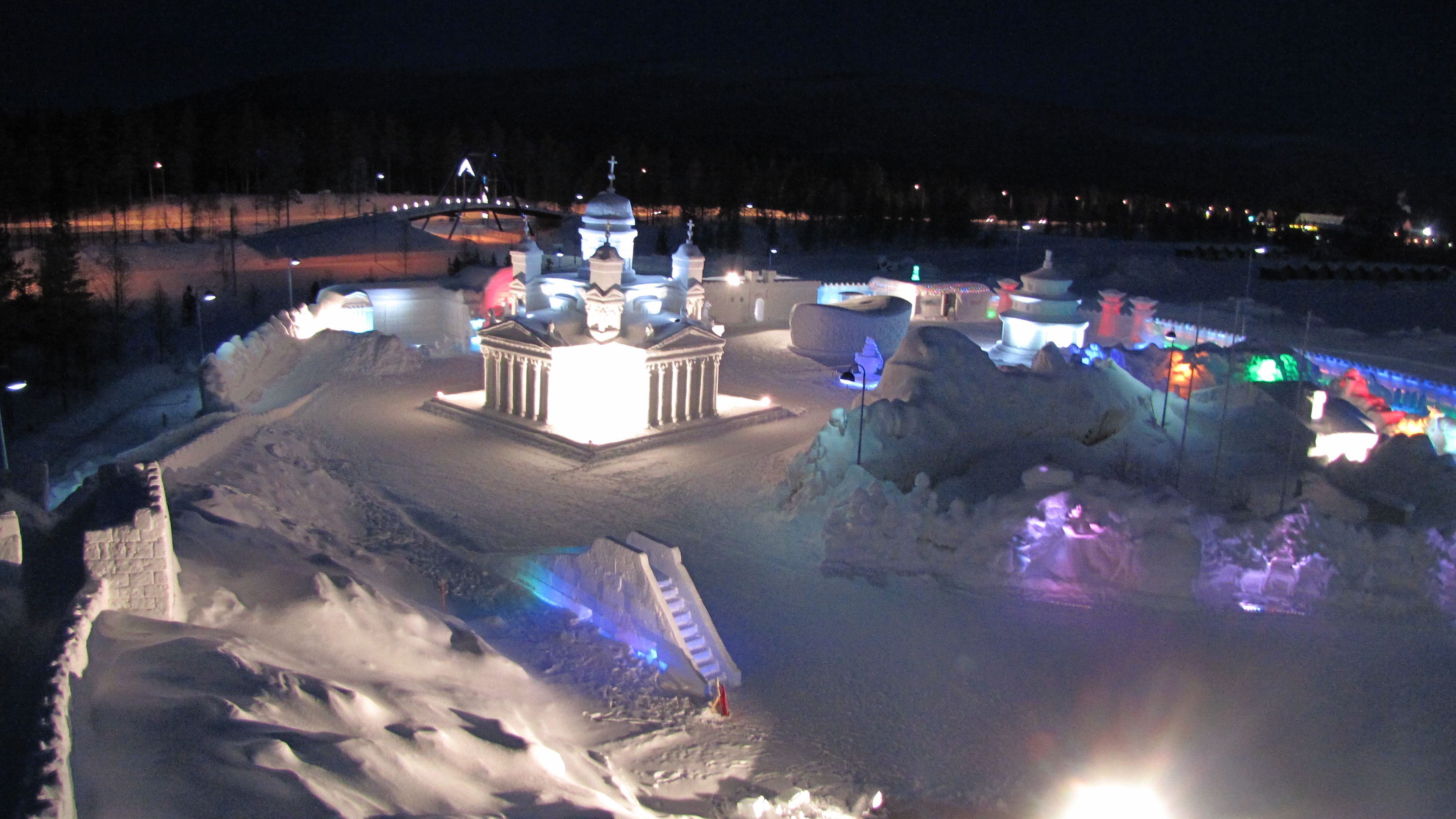 Night view towards the Helsinki Cathedral made from snow in ICIUM Wonderworld of Ice in Levi, Kittilä, Finland